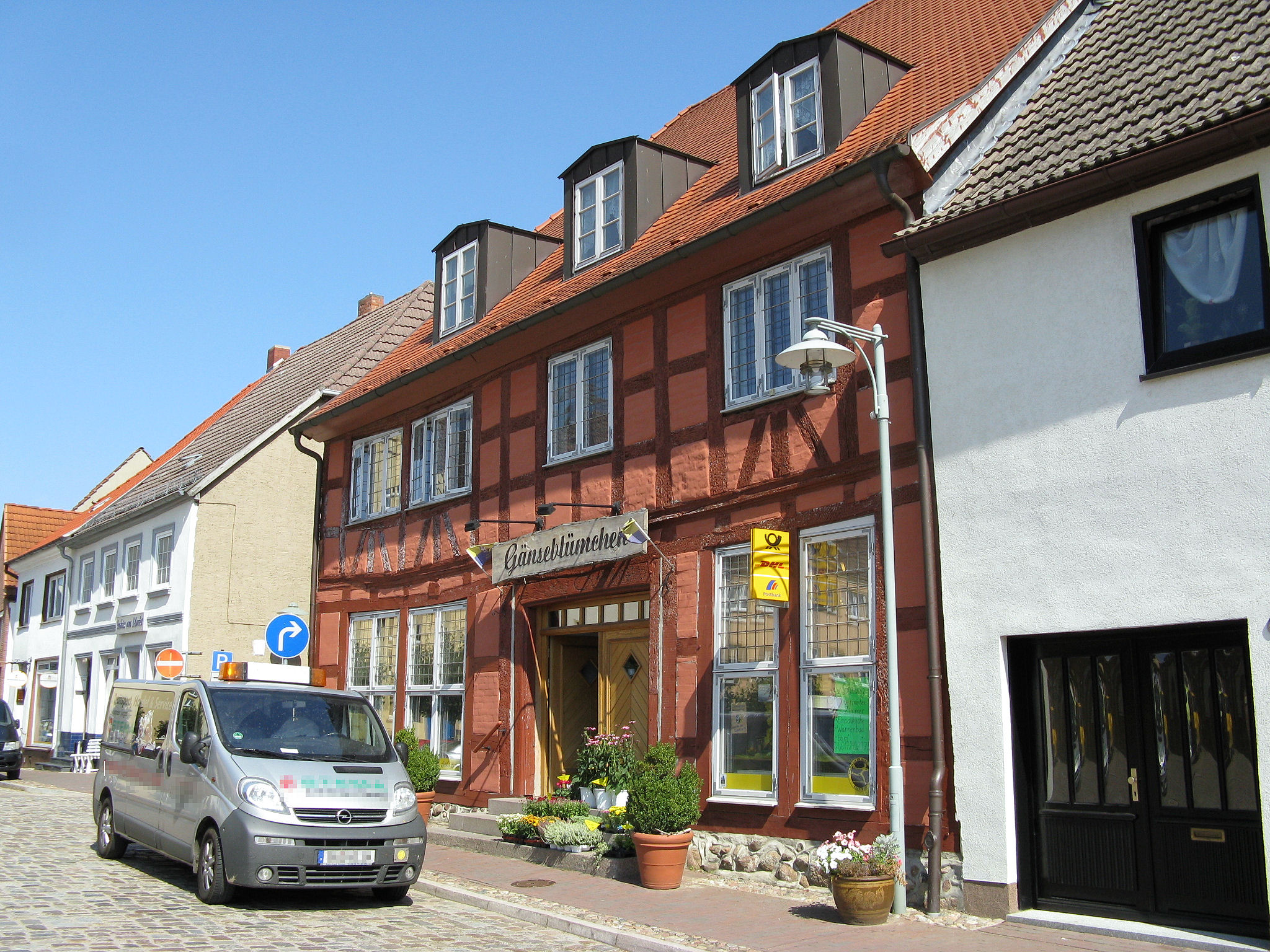 Timber framed house in Gnoien, disctrict Güstrow, Mecklenburg-Vorpommern, Germany